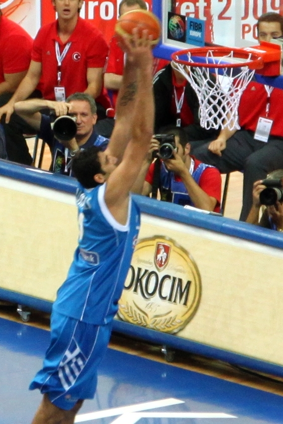 Ioannis Bourousis is striking... Greece edged Turkey in a EuroBasket Quarter-Final thriller. [Turkey 74-76 Greece, Eyrobasket 2009, Poland] Turkey 76-74 Greece